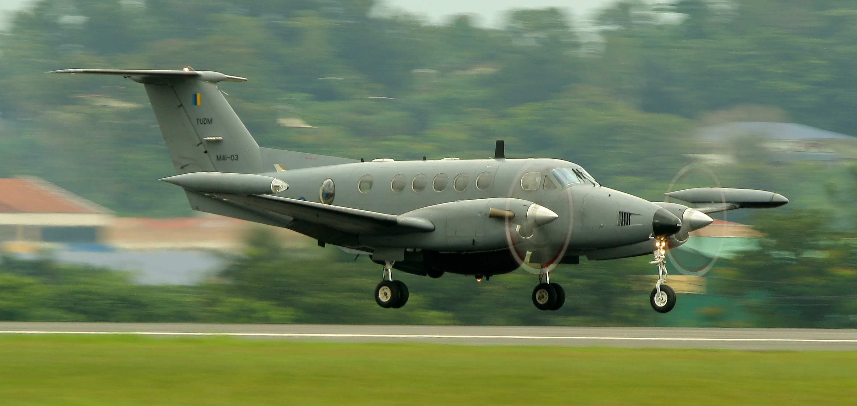 Angled shot of Malaysia Air Force's Beechcraft Super King Air MPA